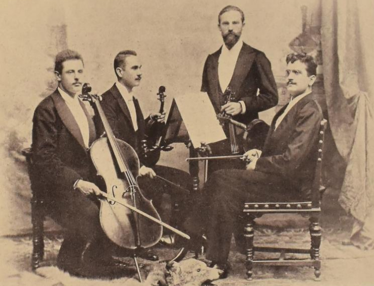 August Duesberg's string quartet: Otto Krist, Hans Matlocha, August Duesberg, Raimund Pirschl